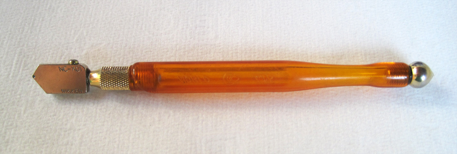 A modern Glass Cutter